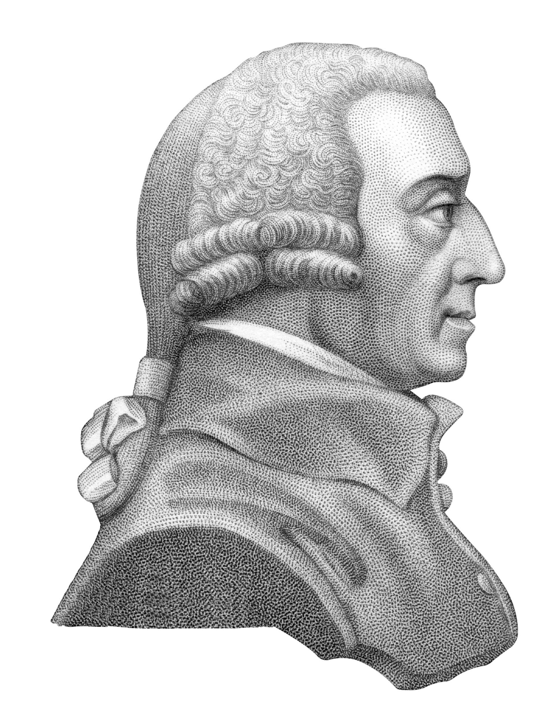 Adam Smith portrait